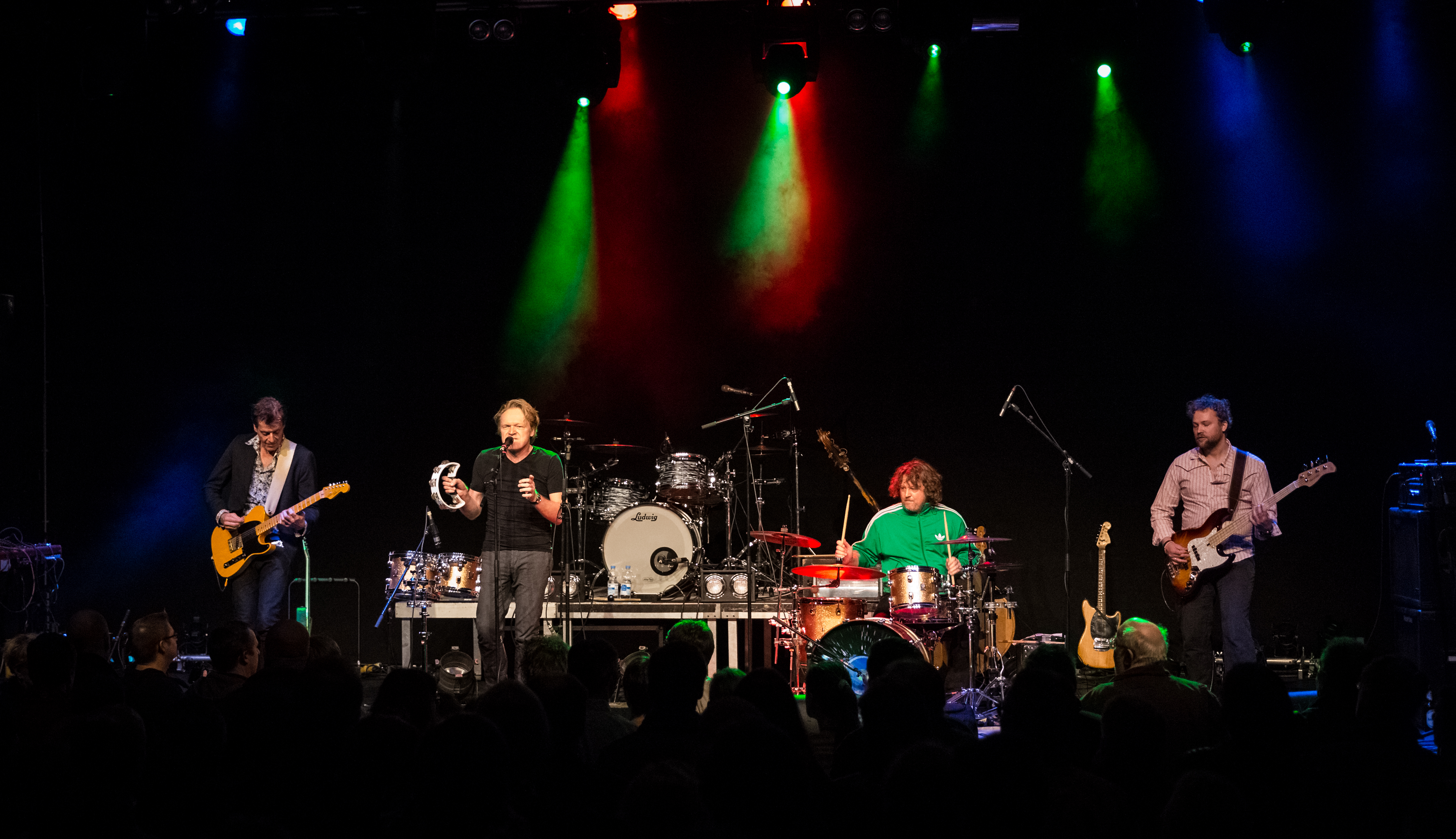 Dear Wolf - Kulturfabrik Krefeld 2016